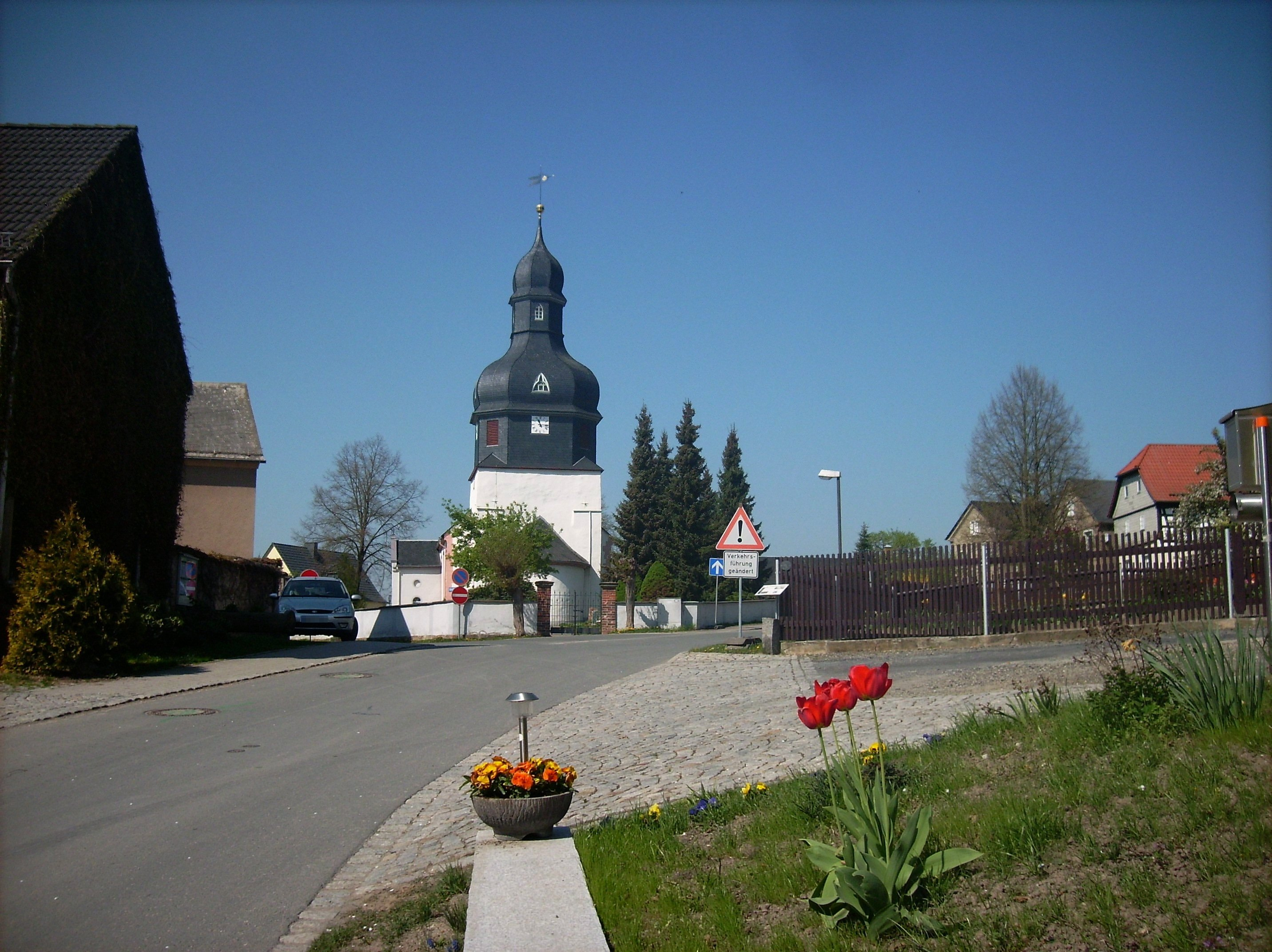 At the church in Linda b. Weida (Greiz district, Thuringia)